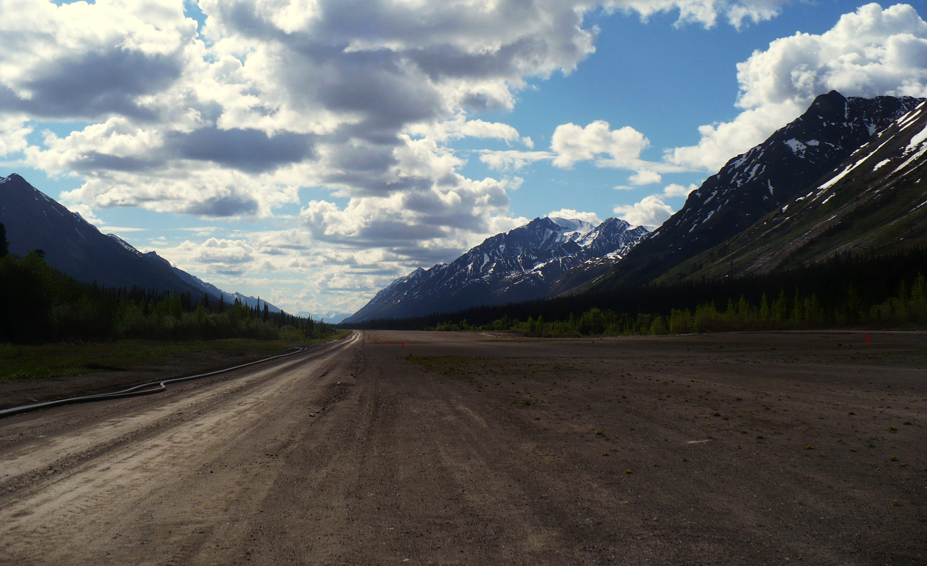 Airport runway (there are no airport buildings) facing south. The only way to take of is departing south, the only way to land is arriving north.